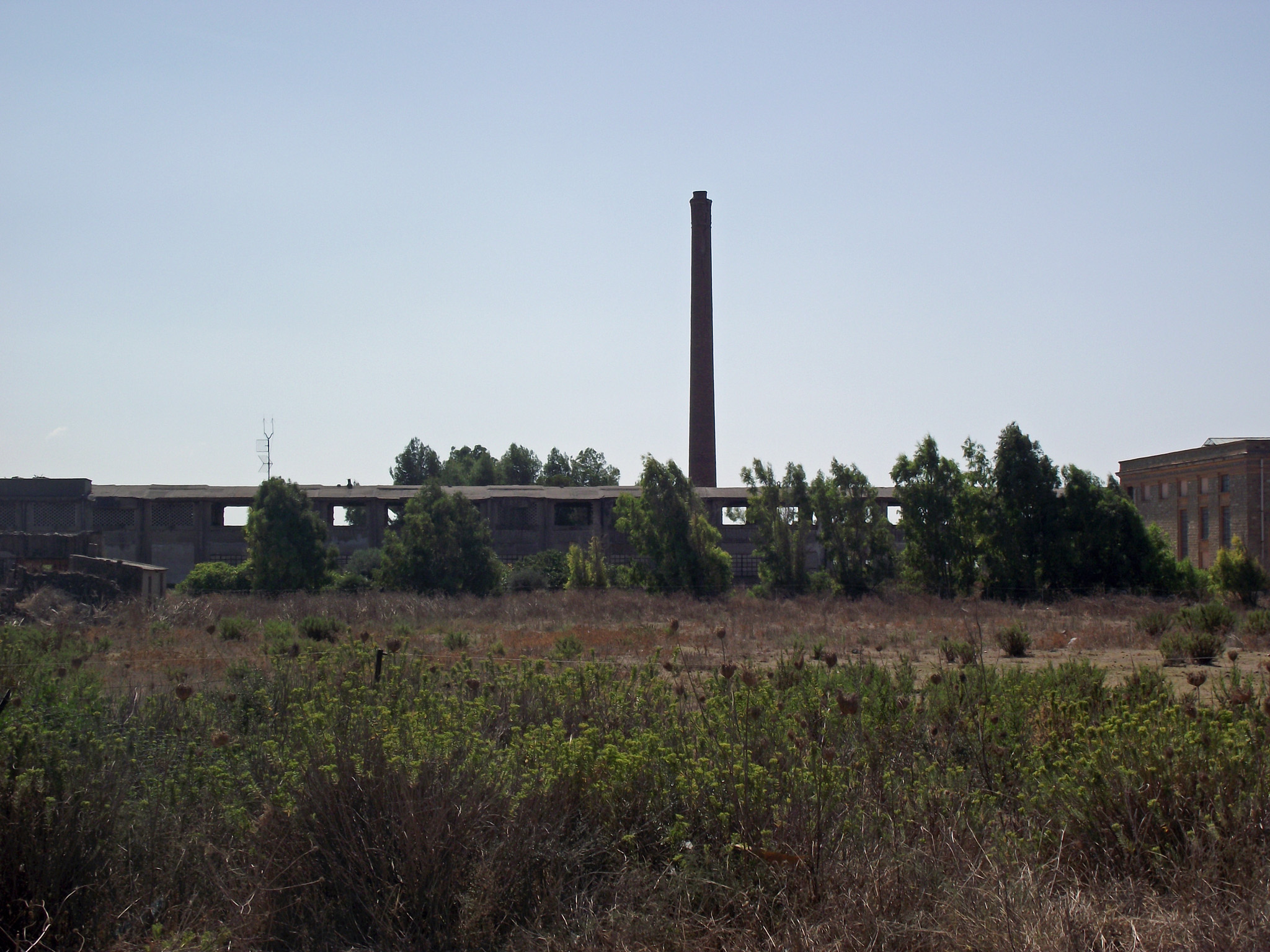 Ruins of the former chemical plant of San Giovanni Suergiu, in Sardinia, Italy, known in the 1930s as SAMIS